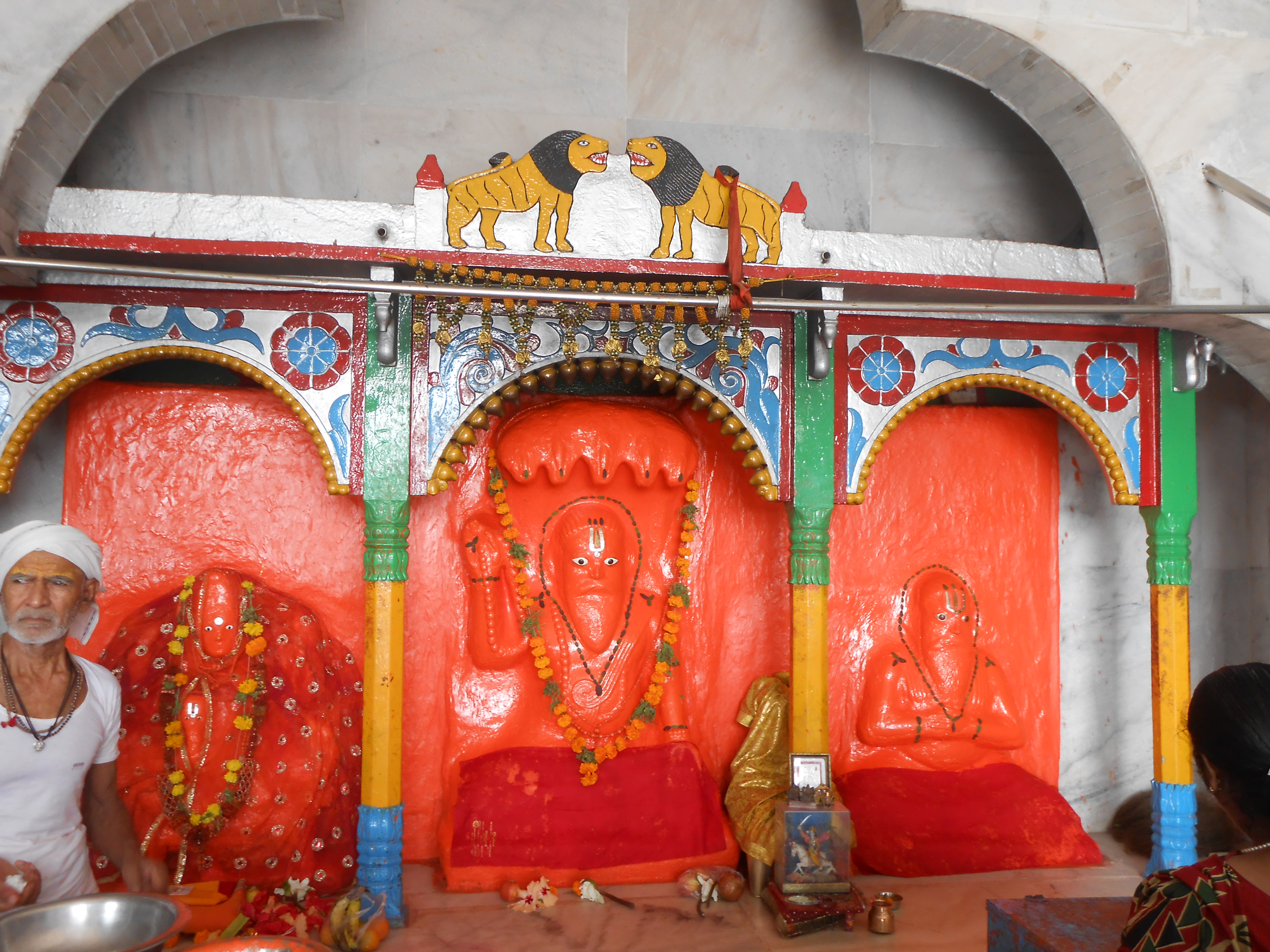 Idol of Kapil Muni at Sagardwip commonly known as Ganga Sagar in the state of West Bengal, India